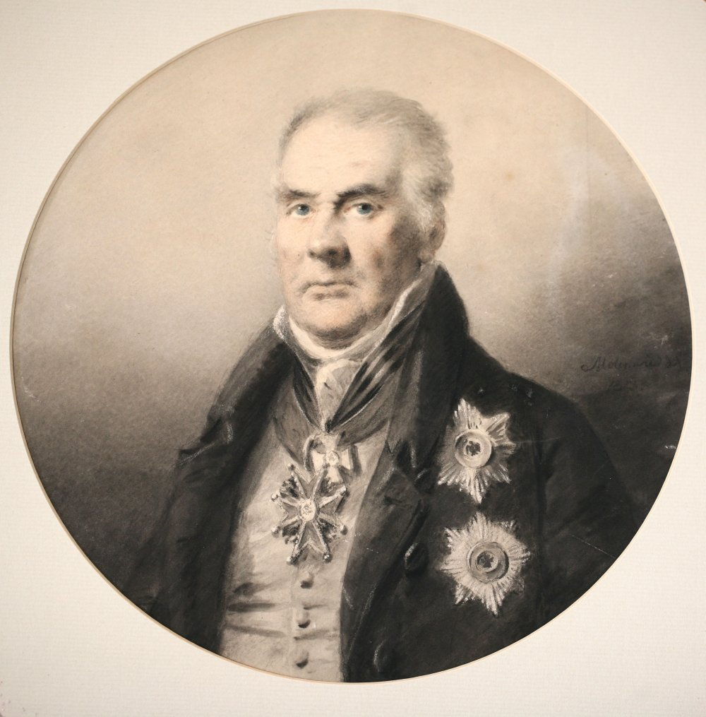 Igelström Osip Andreevich (by Alexander Molinari)